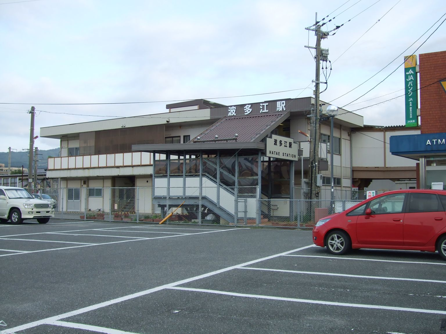 Hatae Station, Chikuhi Line, Kyushu Railway Company.